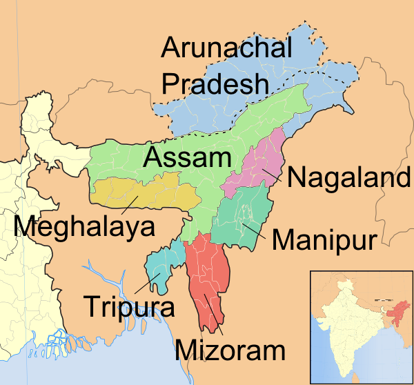 Locator map of the Seven Sister States and Sikkim in India